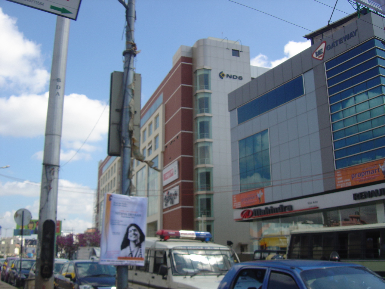 Koramangala